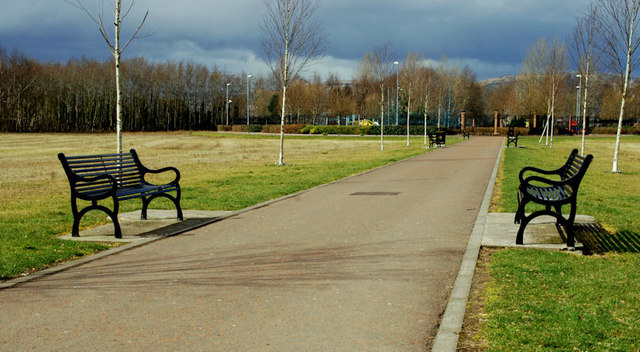 Park seats, Belfast In Tommy Patton (a former Lord Mayor and local historian) Park on the Holywood Road.